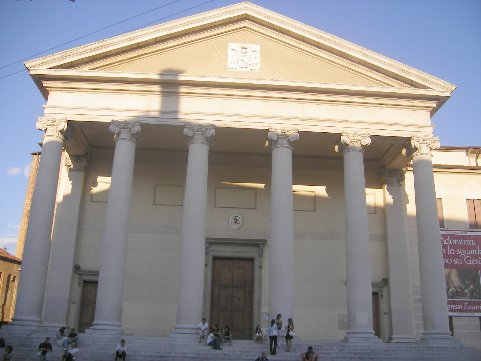 Treviso